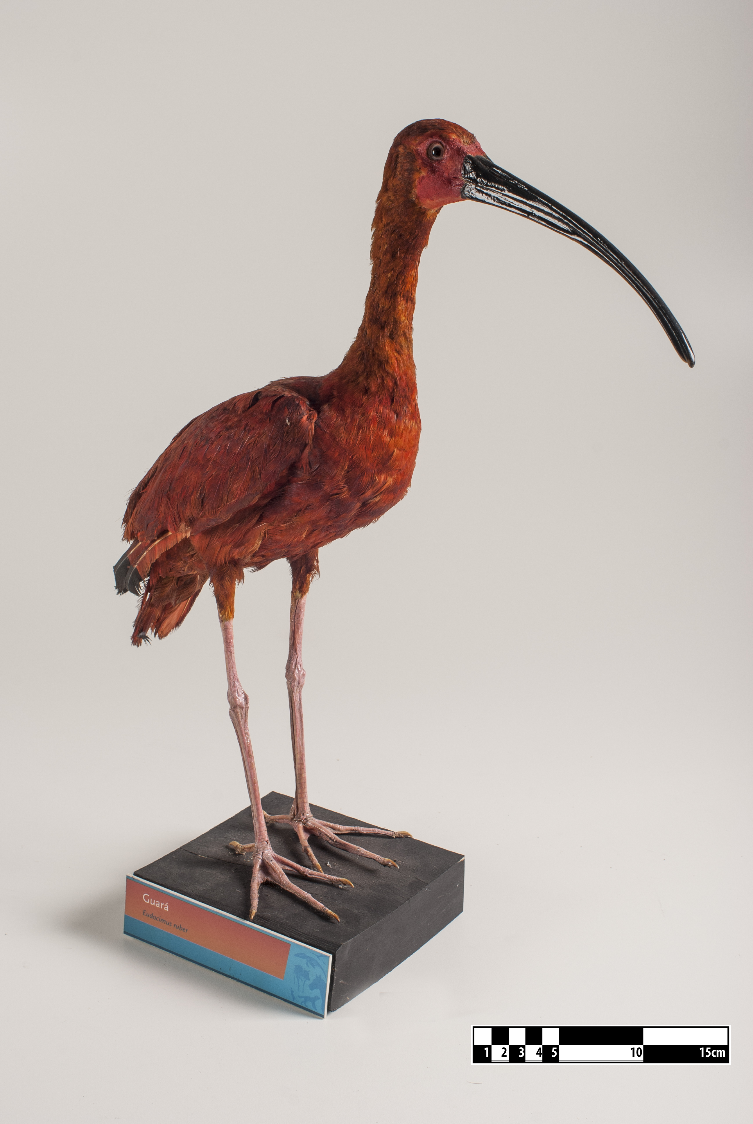 Guará or Scarlet ibis (Eudocimus ruber). Taxidermy specimen of a Guará on display at the Museum of Veterinary Anatomy FMVZ USP. Guará has long legs for a bird ranging from 50 to 60 cm height. It has a pointed bill, long and slightly curved downward and typical red plumage. In Brazil, its diet is based on the crab Uca maracoani found in estuarine mudflats. The indigenous-derived names of several Brazilian locations are associated with the regional presence of Guará in the past, such as Guaraqueçaba (PR), Guaratingueta (SP), Guaratiba (RJ ) and Guarapari (ES). This file was published as the result of a partnership between the Museum of Veterinary Anatomy FMVZ USP, the RIDC NeuroMat and the Wikimedia Community User Group Brasil. This GLAM project is reported. Photography: Museum of Veterinary Anatomy FMVZ USP Author: Wagner Souza e Silva